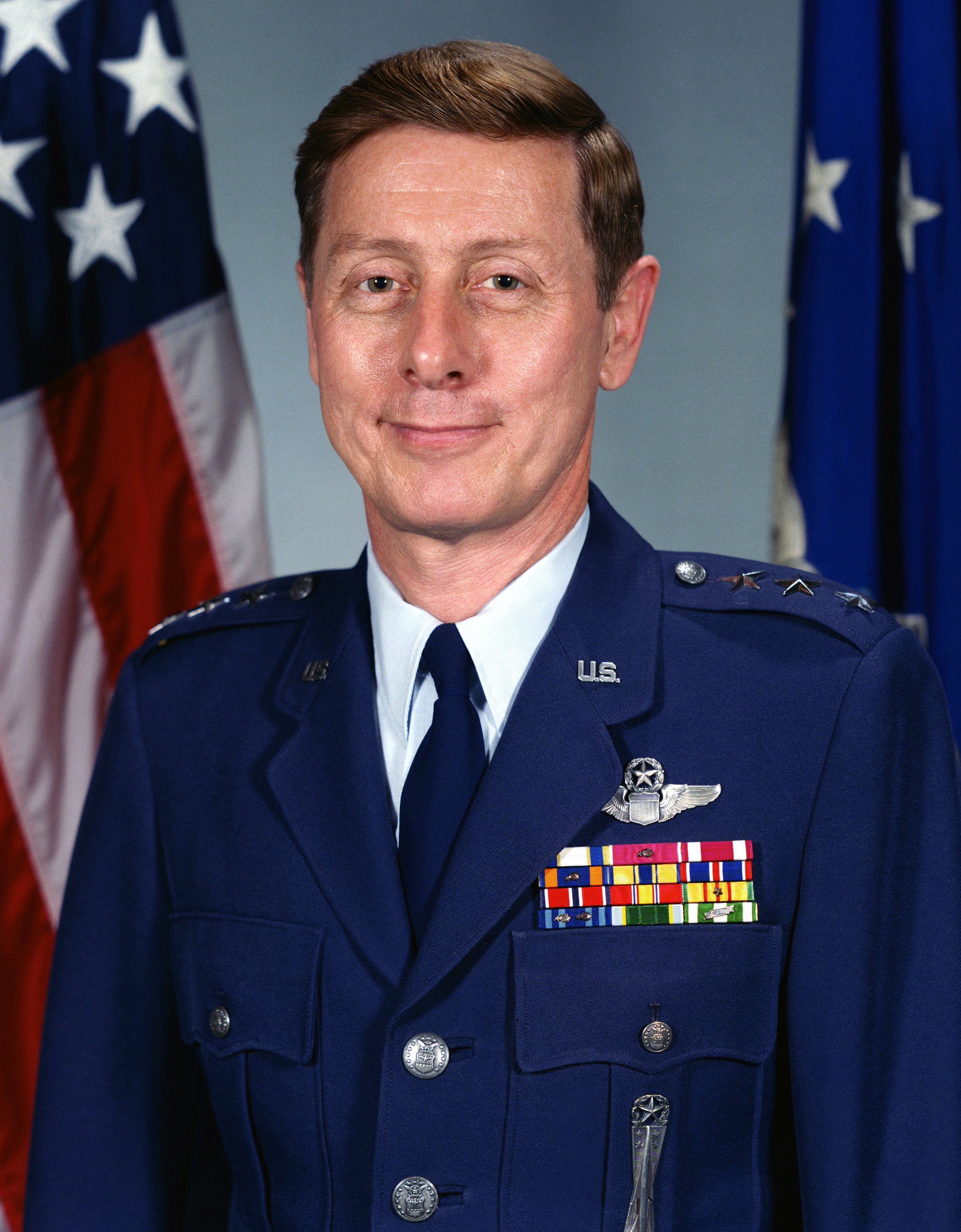 James Alan Abrahamson